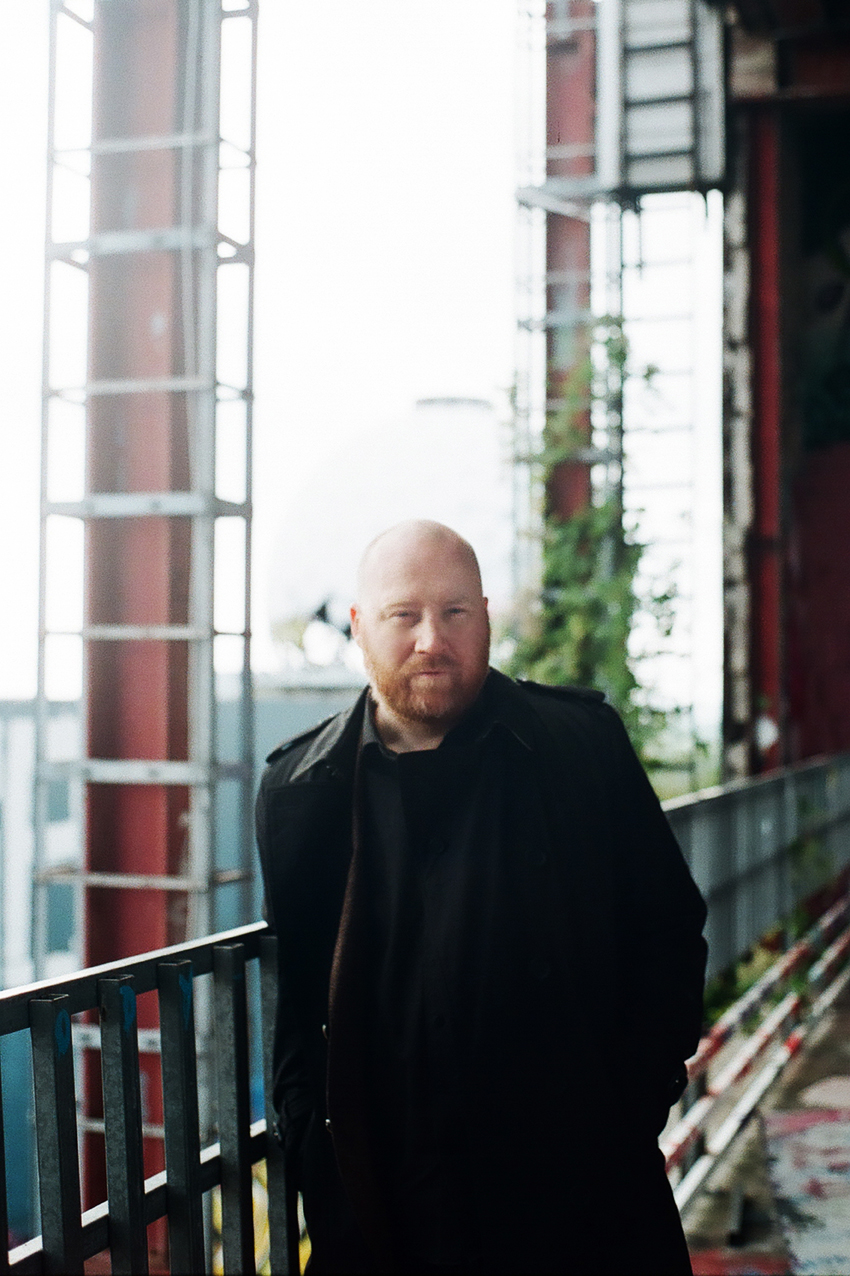 Jóhann Jóhannsson Format: Analog